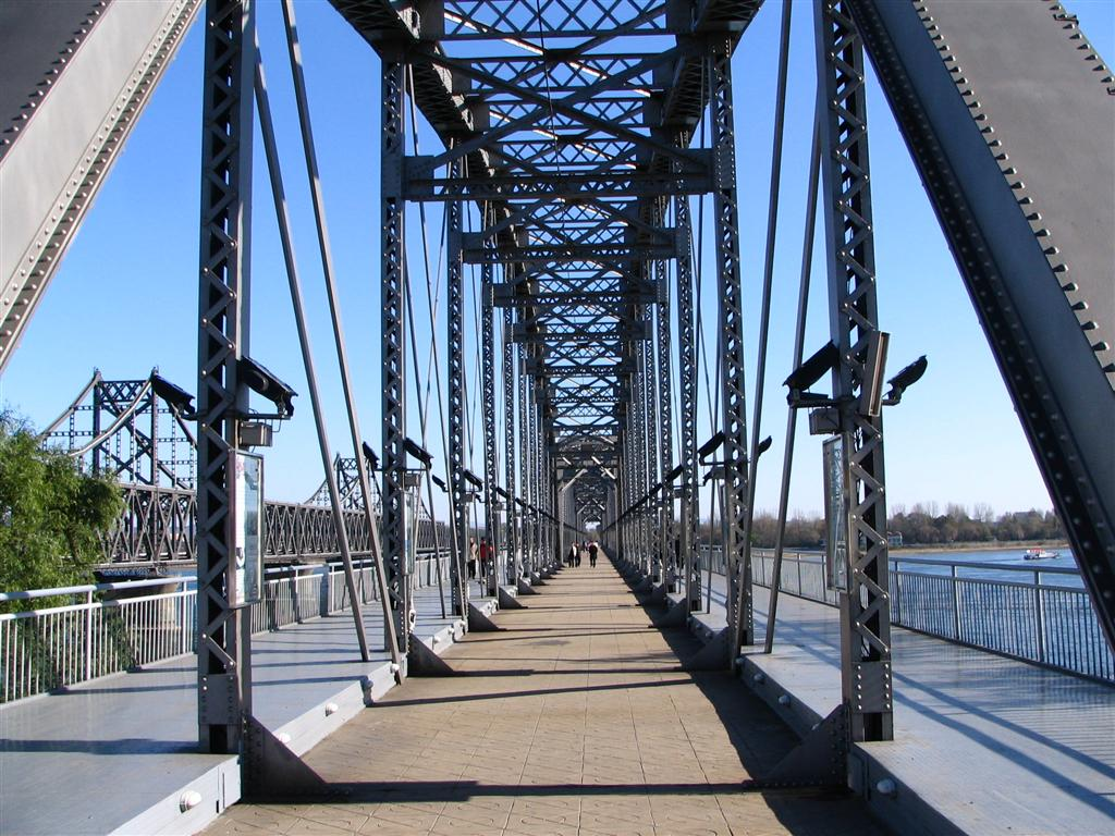 The Yalu River Broken Bridge, a former railway bridge that was partially destroyed in 1950–51, with its surviving portion later re-opened for tourism. At left is the parallel Sino-Korean Friendship Bridge.